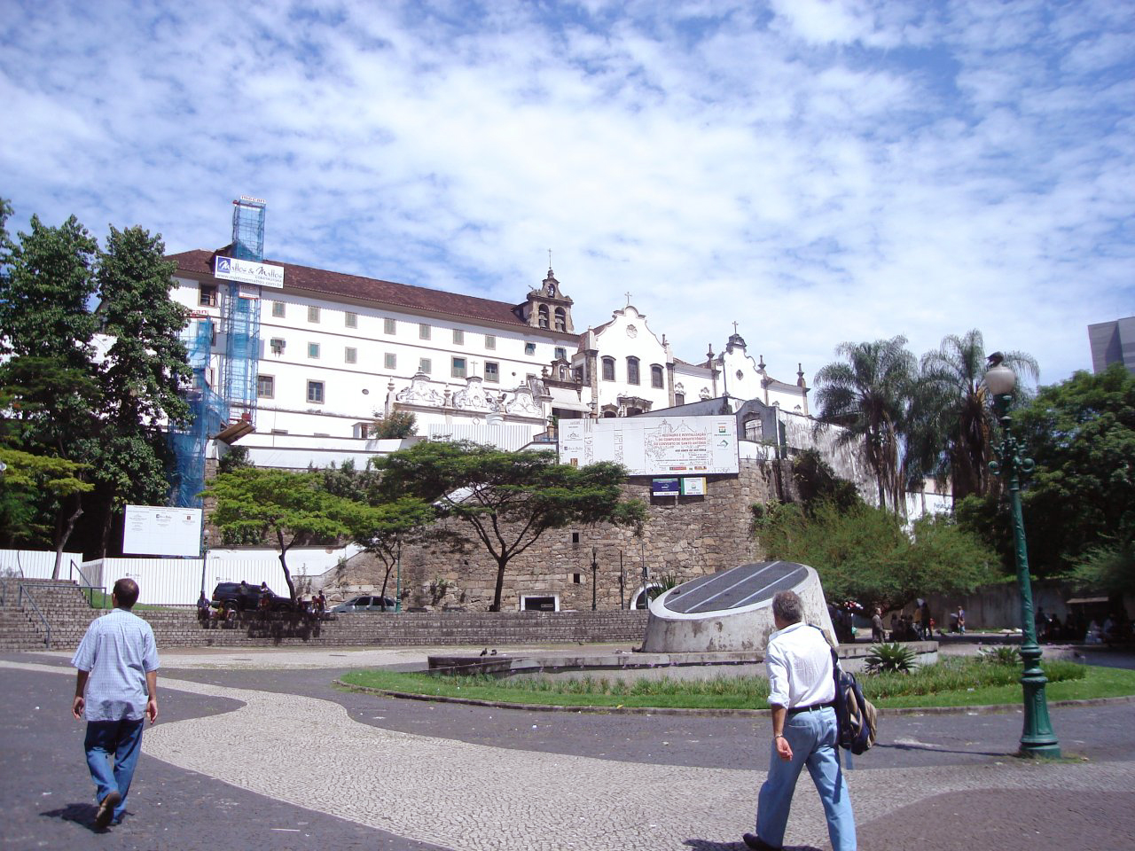 Largo da Carioca (Carioca Square) in central Rio de Janeiro, Brazil